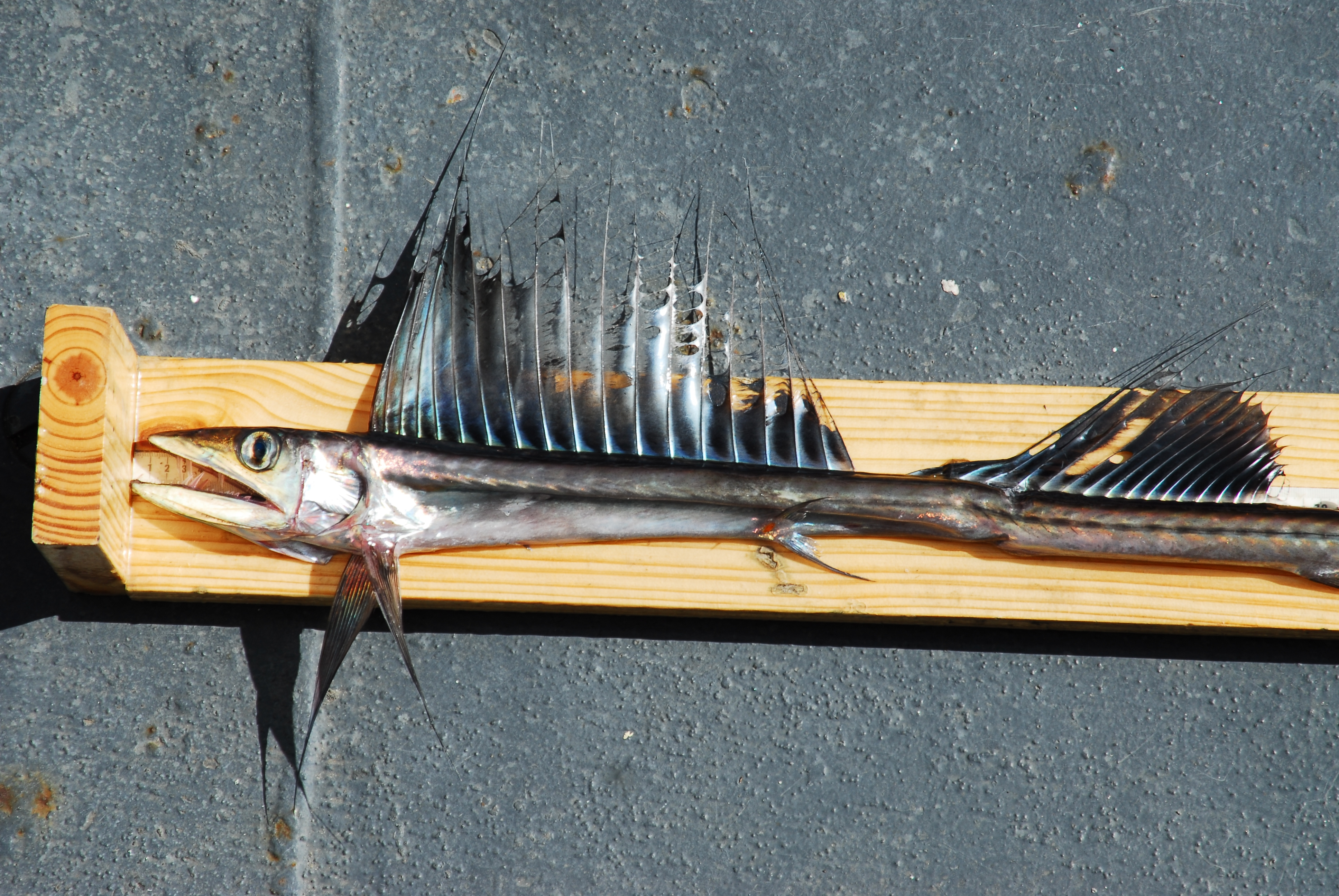 Alepisaurus ferox